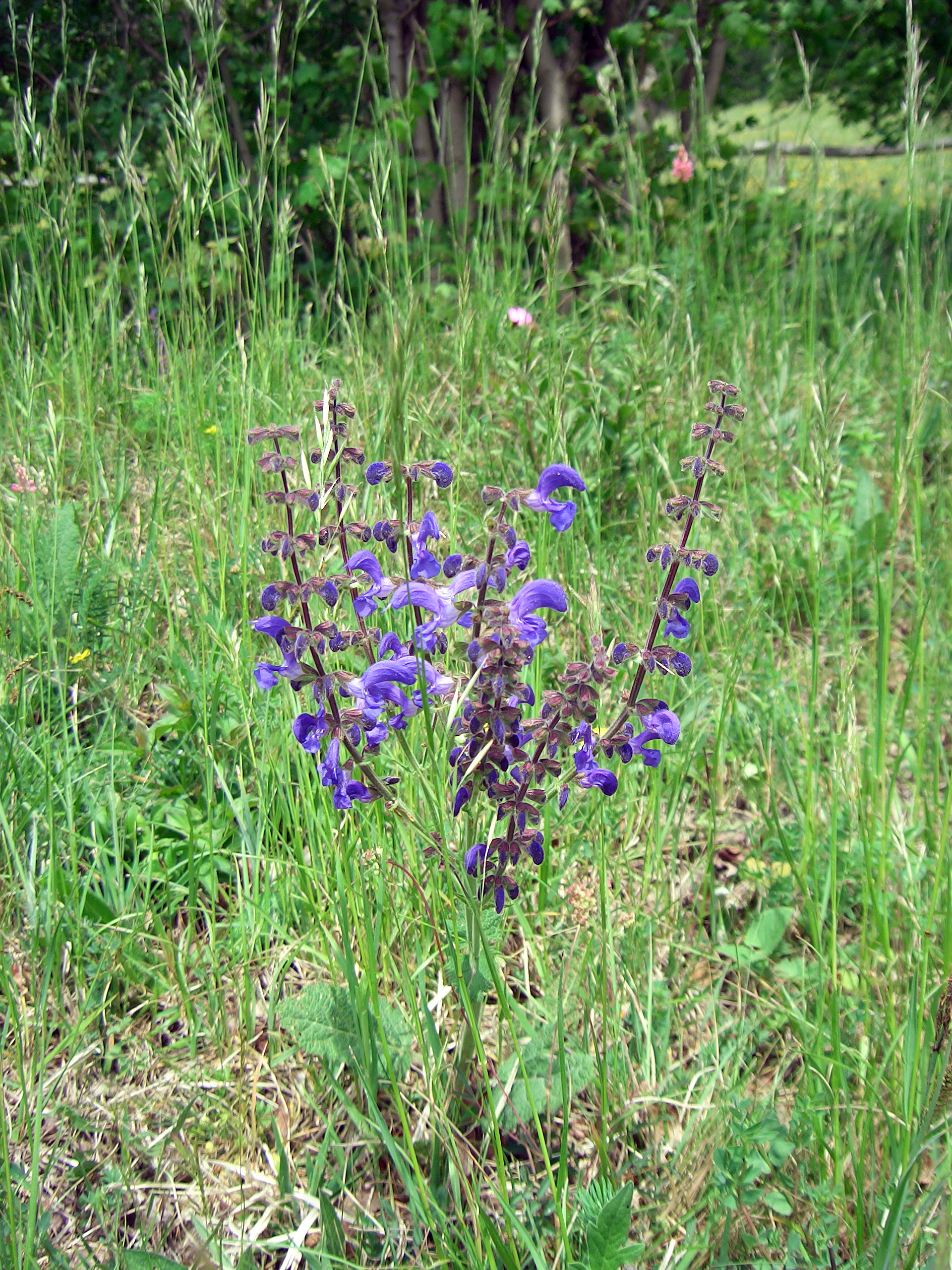 The valley and nature reserve Leutratal (in the environs of Jena), Thuringia, Germany: Herbage with Meadow Clary (Salvia pratensis).